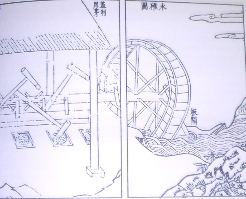 A set of trip hammers on an axle rotated by a waterwheel, a machine used to decorticate grain. From the Tiangong Kaiwu encyclopedia of 1637, written by the Ming Dynasty encyclopedist Song Yingxing (1587-1666).